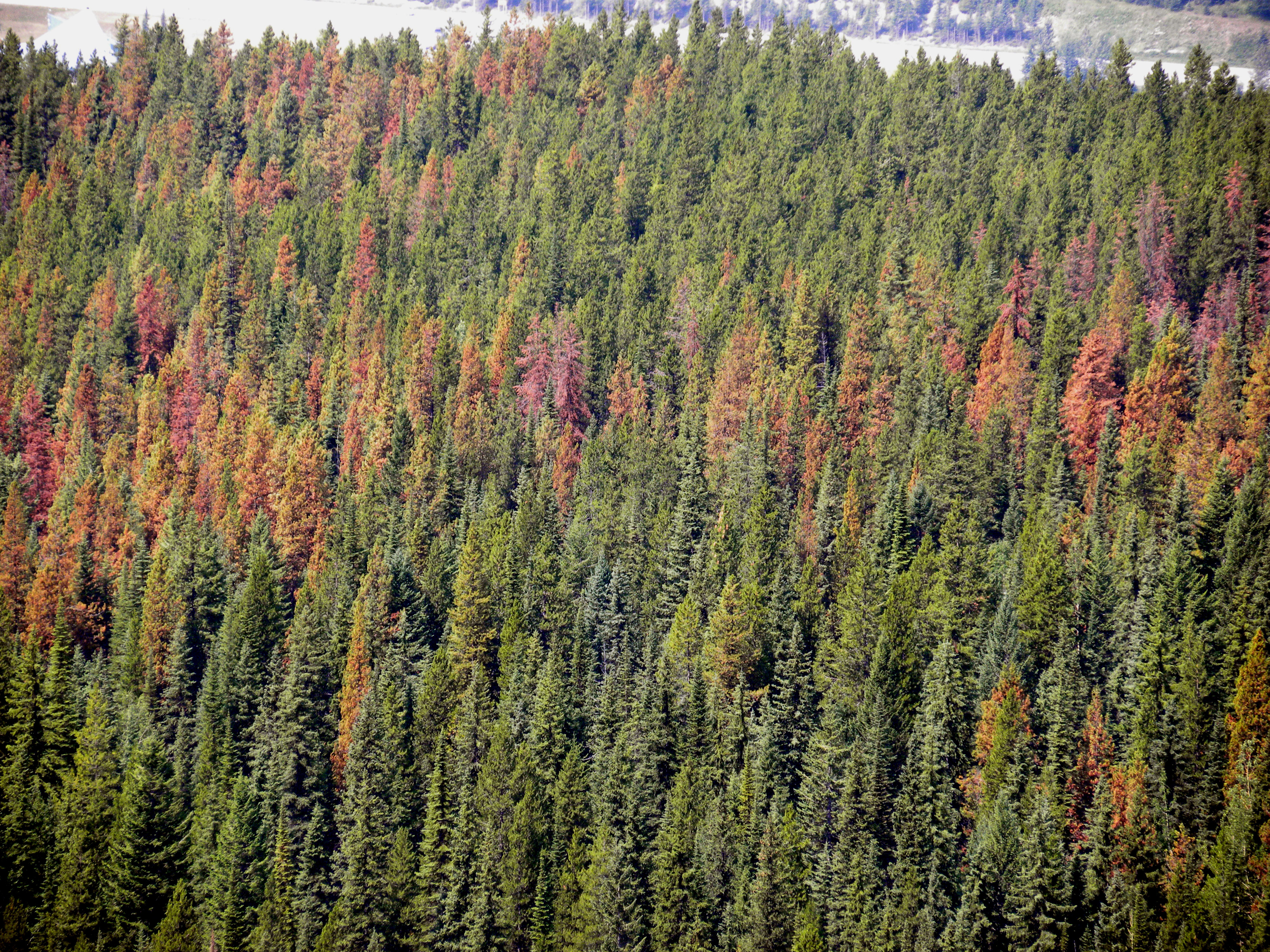 Beetle damage to forest south of Field, British Columbia, Canada.